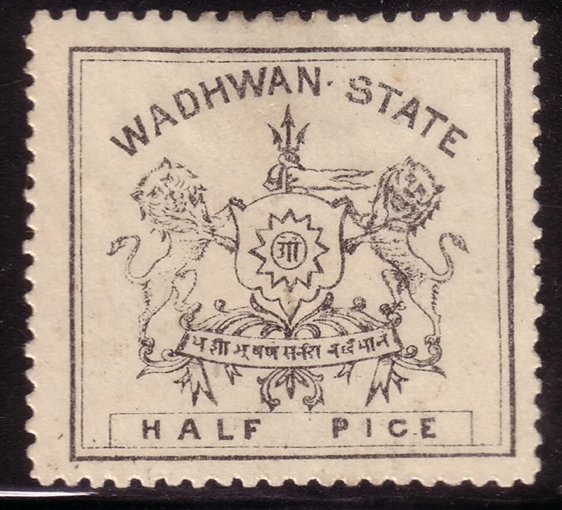 An achievement of the state of Wadhwan is known from the reign of Thakur Sahib Shri Balsinhji (1885-1910): State of... Arms: A sun radiant charged with the word “OM” (amen). Crest: A trident with a pennon. Supporters: Two lions rampant guardant. (On a stamp, 1888)